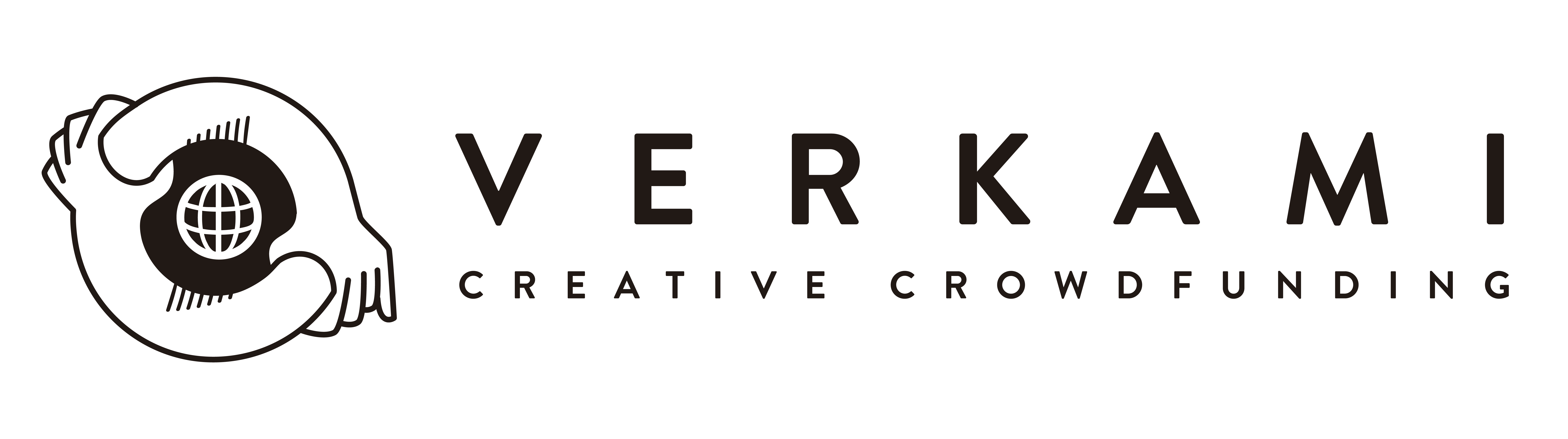 verkami logo